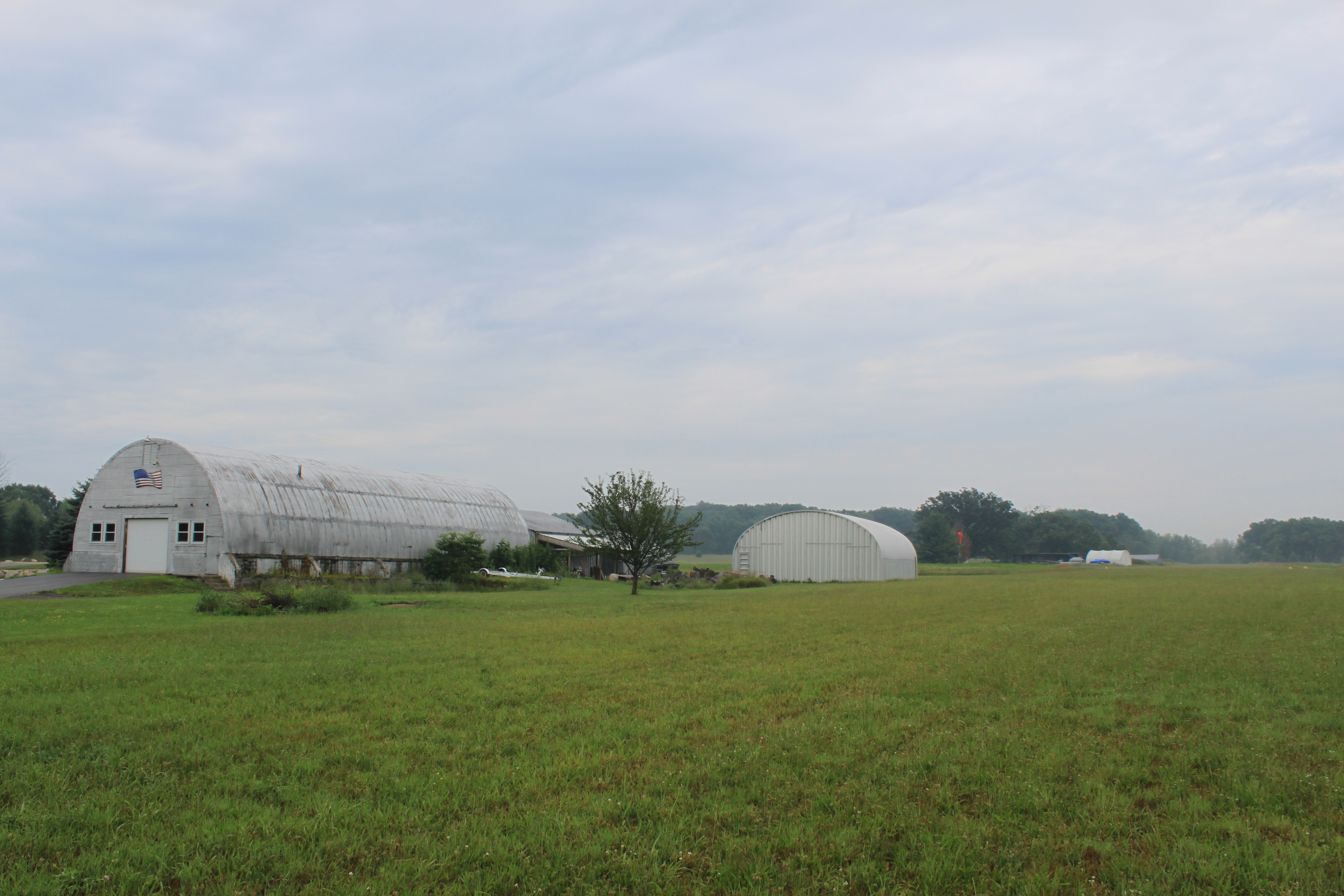 Cackleberry Airport, Dexter Michigan, Hangar area